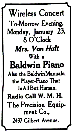 Radio station WMH, operated by the Precision Equipment Company of Cincinnati, was the first broadcasting station in the state of Ohio